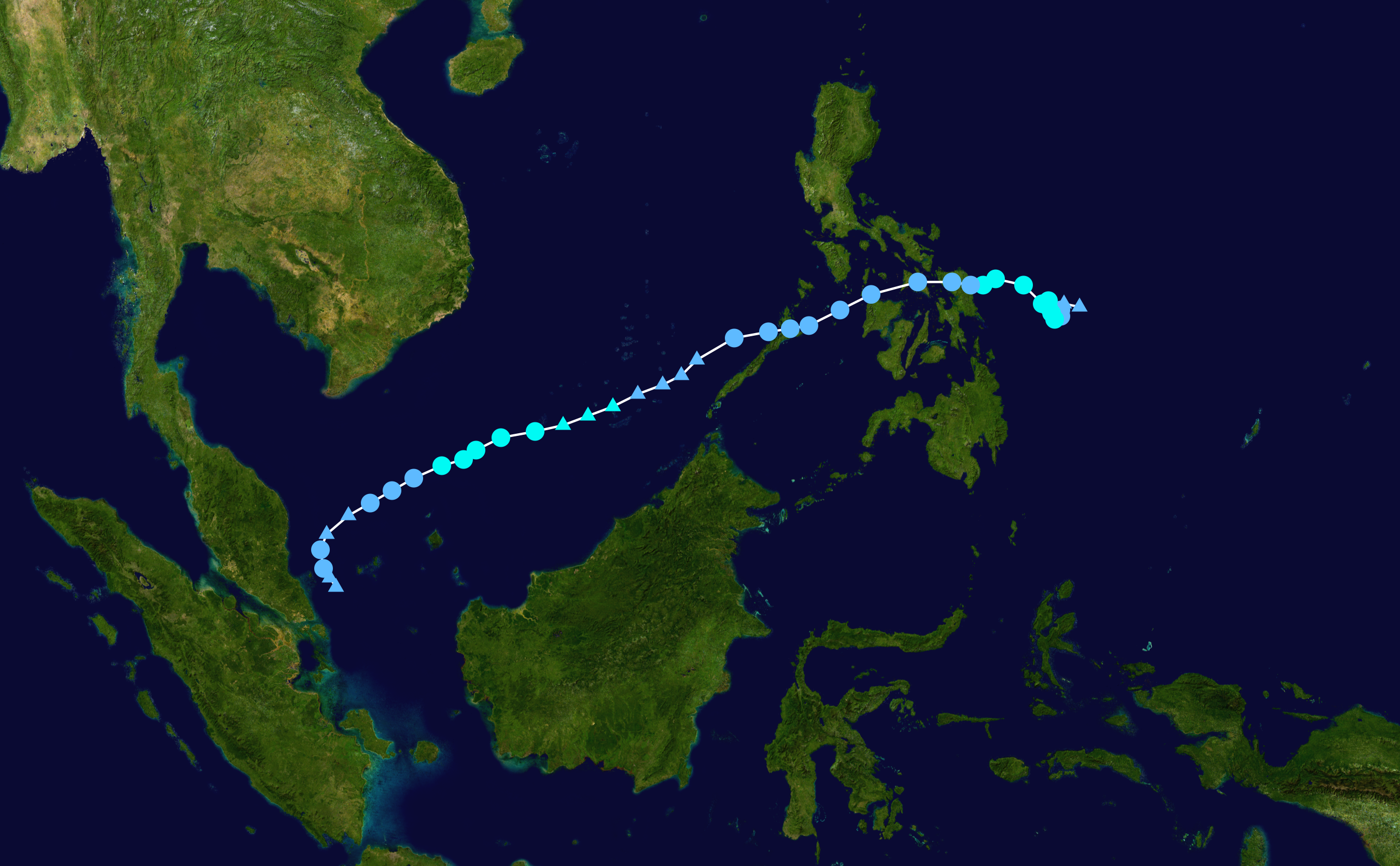 Track map of Tropical Storm Kai-tak of the 2017 Pacific typhoon season. The points show the location of the storm at 6-hour intervals. The colour represents the storm's maximum sustained wind speeds as classified in the Saffir–Simpson scale (see below), and the shape of the data points represent the nature of the storm, according to the legend below. Saffir–Simpson scale Tropical depression≤38 mph≤62 km/h Category 3111–129 mph178–208 km/h Tropical storm39–73 mph63–118 km/h Category 4130–156 mph209–251 km/h Category 174–95 mph119–153 km/h Category 5≥157 mph≥252 km/h Category 296–110 mph154–177 km/h Unknown Storm type Tropical cyclone Subtropical cyclone Extratropical cyclone / Remnant low / Tropical disturbance / Monsoon depression